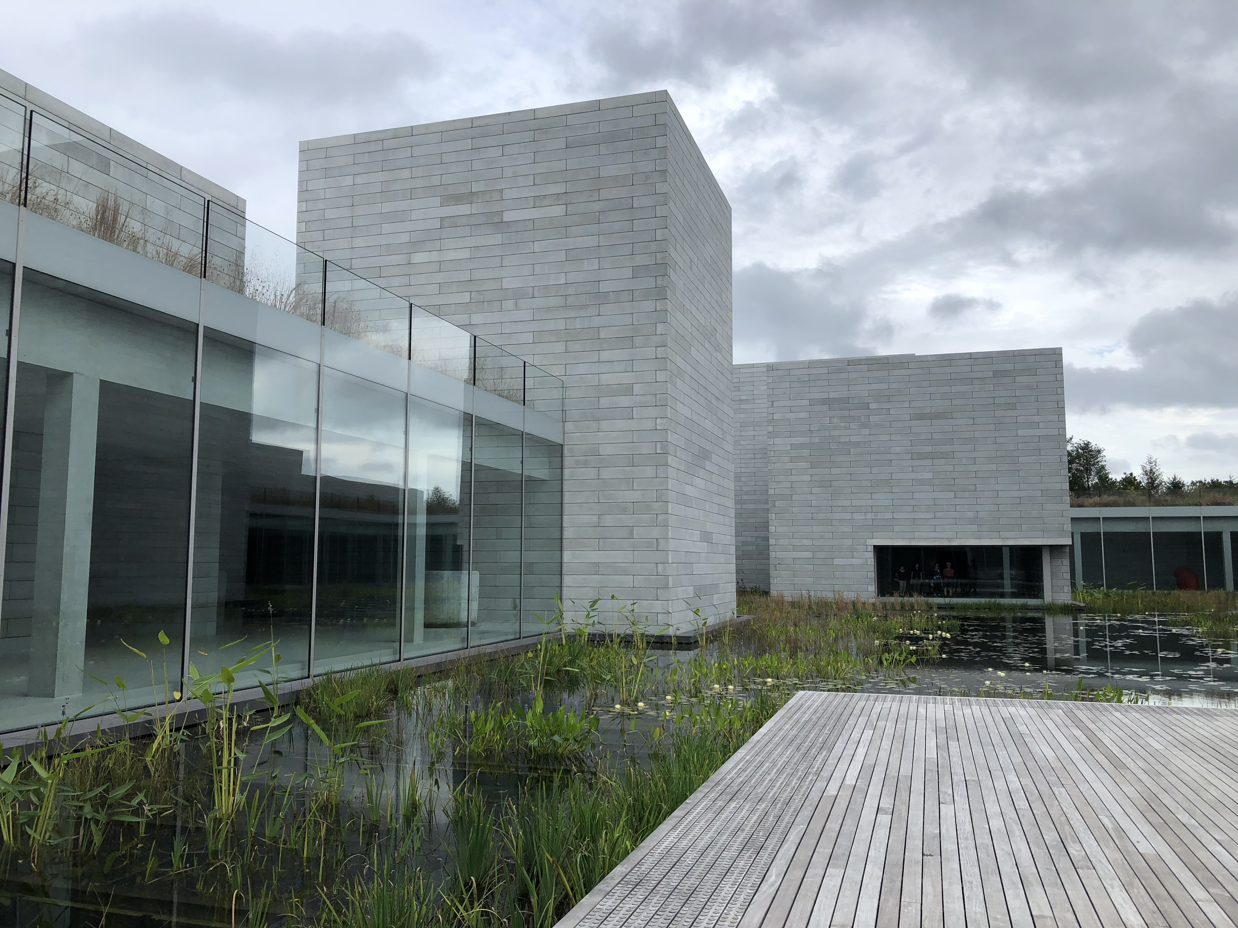 Glenstone museum in Potomac, MD. 2018-10-11